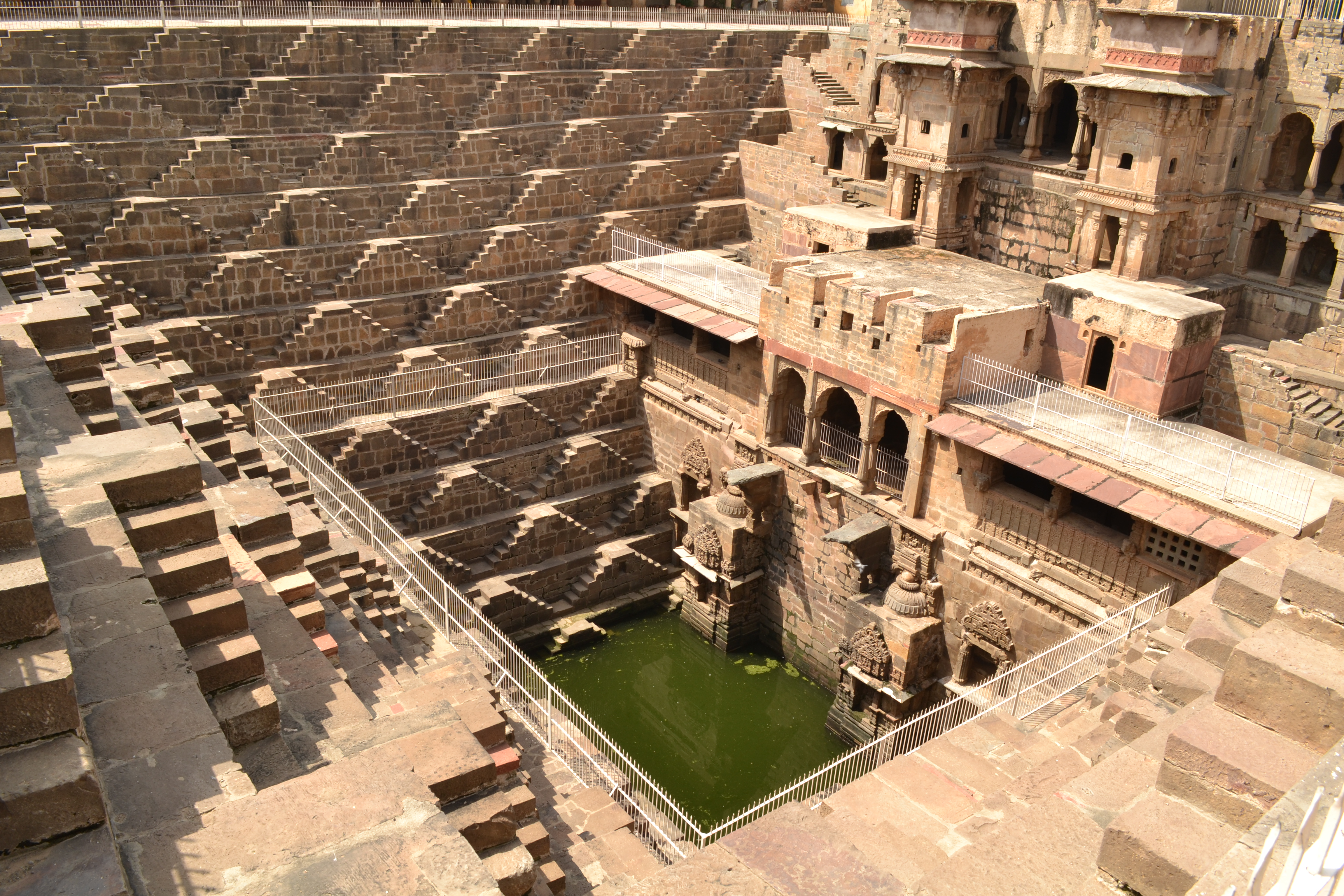 Chand Baori at Abhaneri (Dausa, Rajasthan)